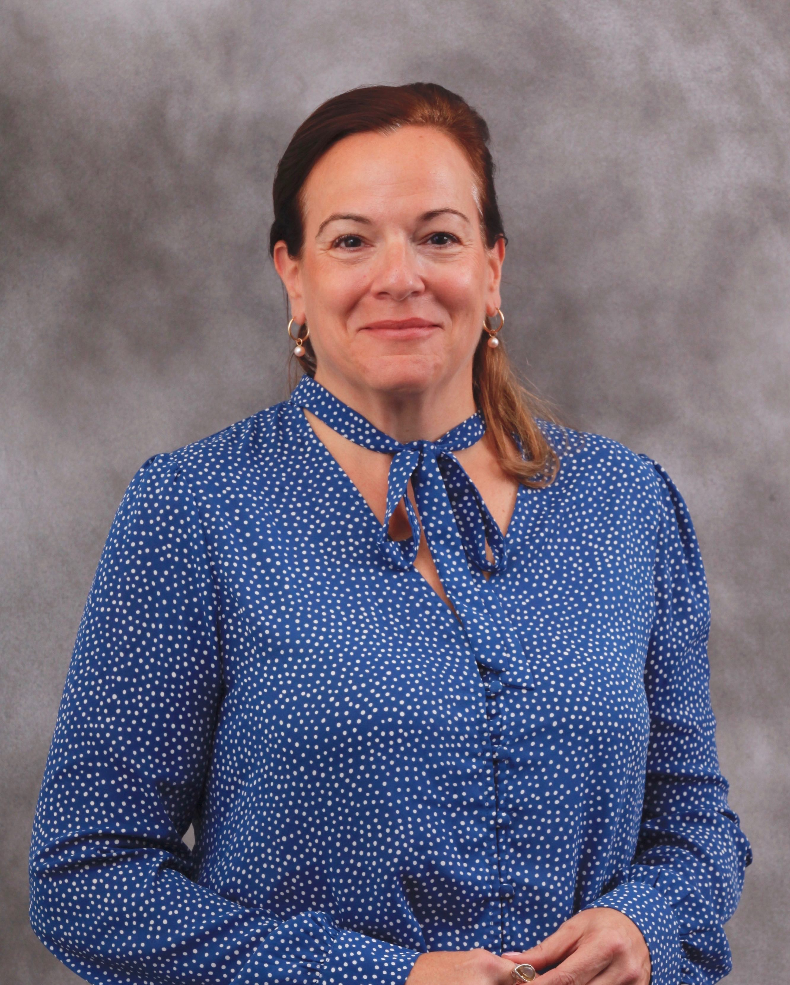 Cynthia Keppel, leader of Jefferson Lab’s Halls A&C, has been honored with the APS 2019 Distinguished Lectureship Award on the Applications of Physics.